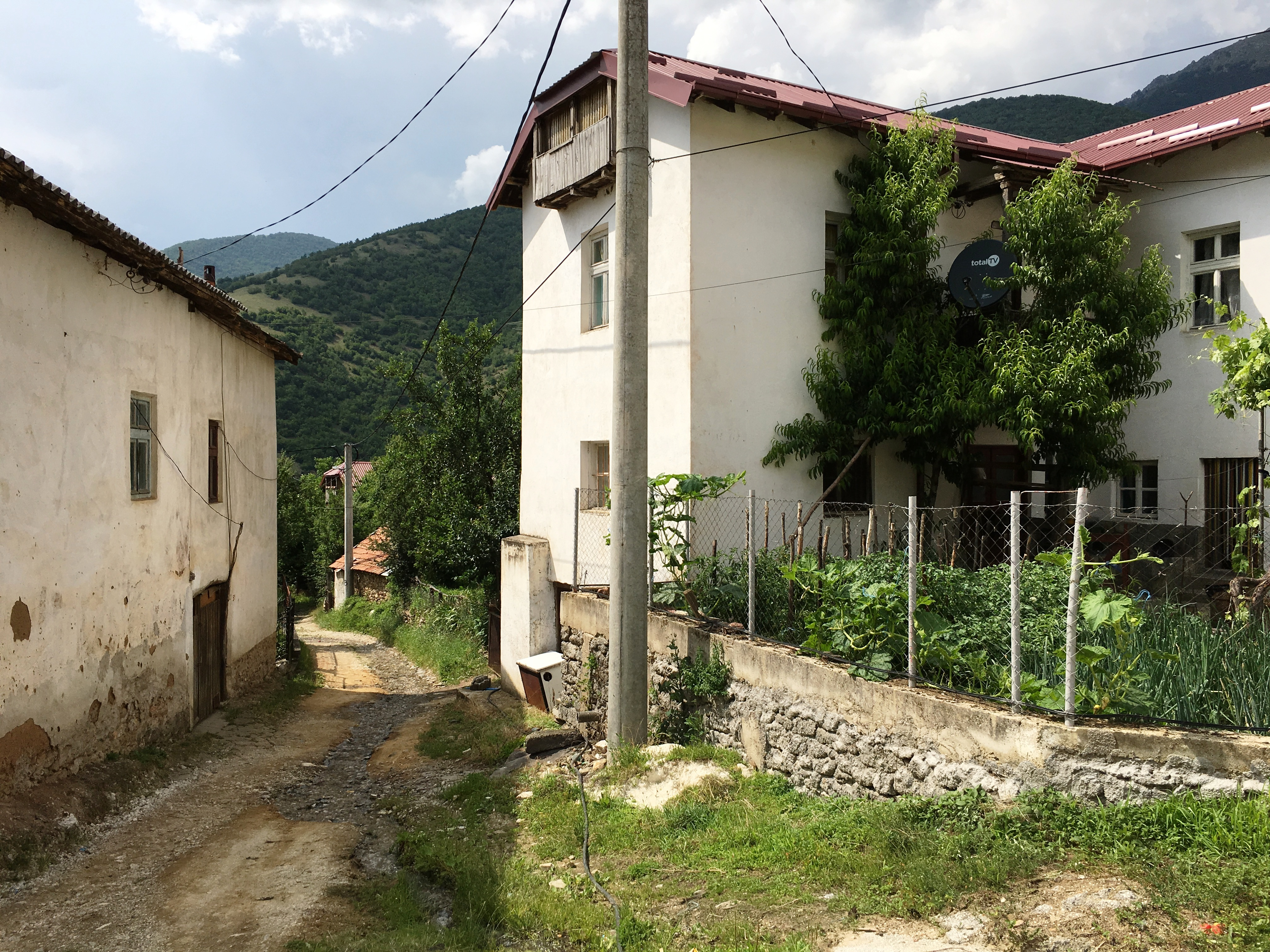 Houses in the village of Latovo